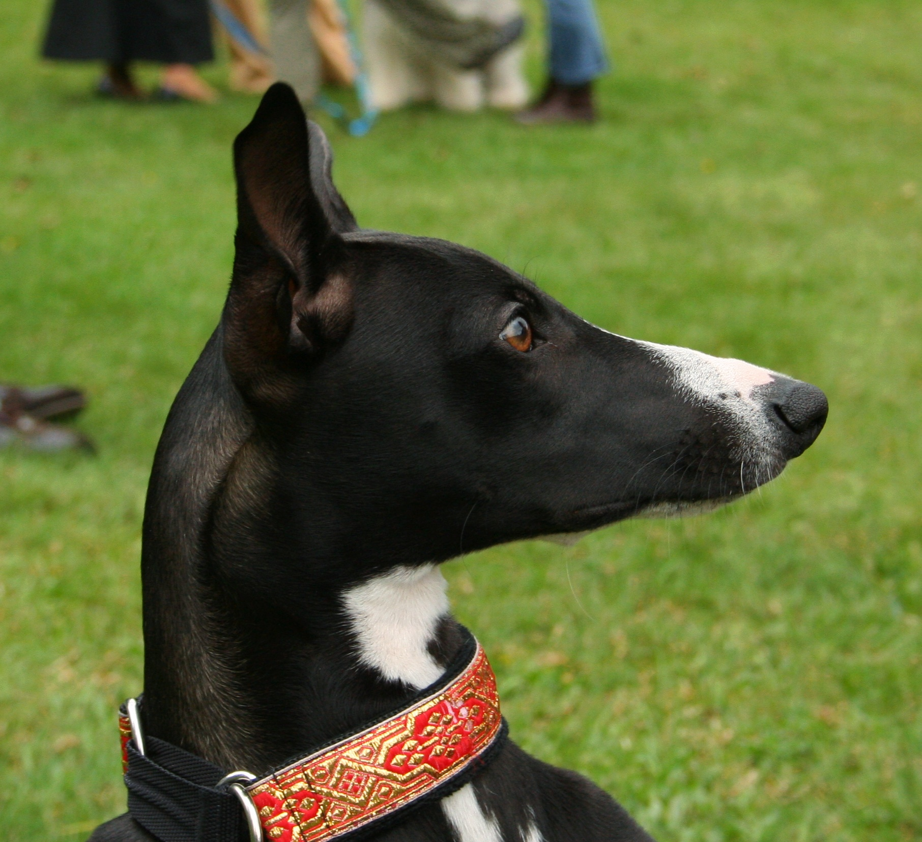 Whippet during show of dogs in Rybnik - Kamień, Poland